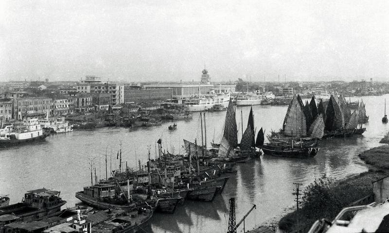 Ningbo Jiangbei Foreign District in 1984s